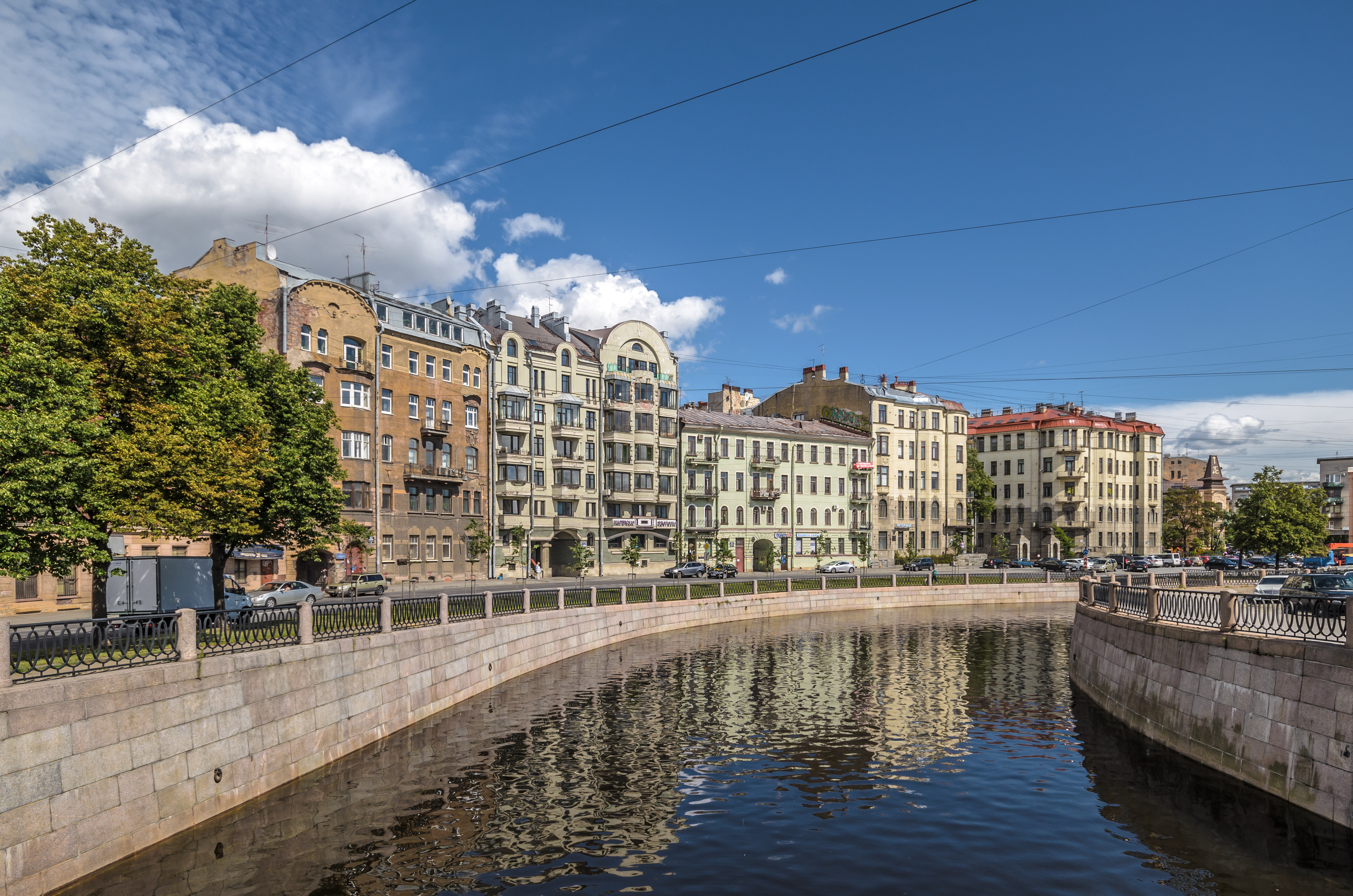 Karpovka River Embankment in Saint Petersburg